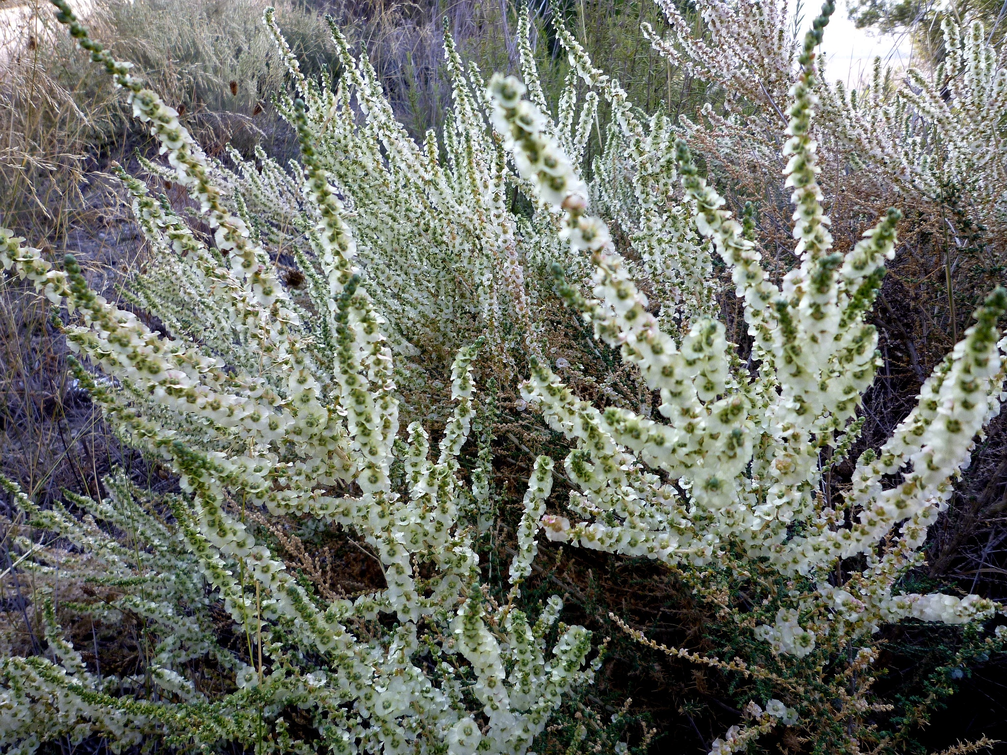 Salsola vermiculata. In Torà (Segarra-Catalunya). To 490 m. altitude